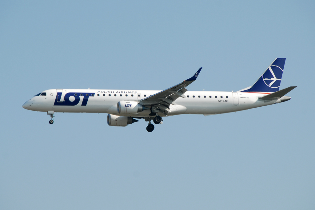 SP-LNE LOT Polish Airlines Embraer EMB195 c/n 19000583